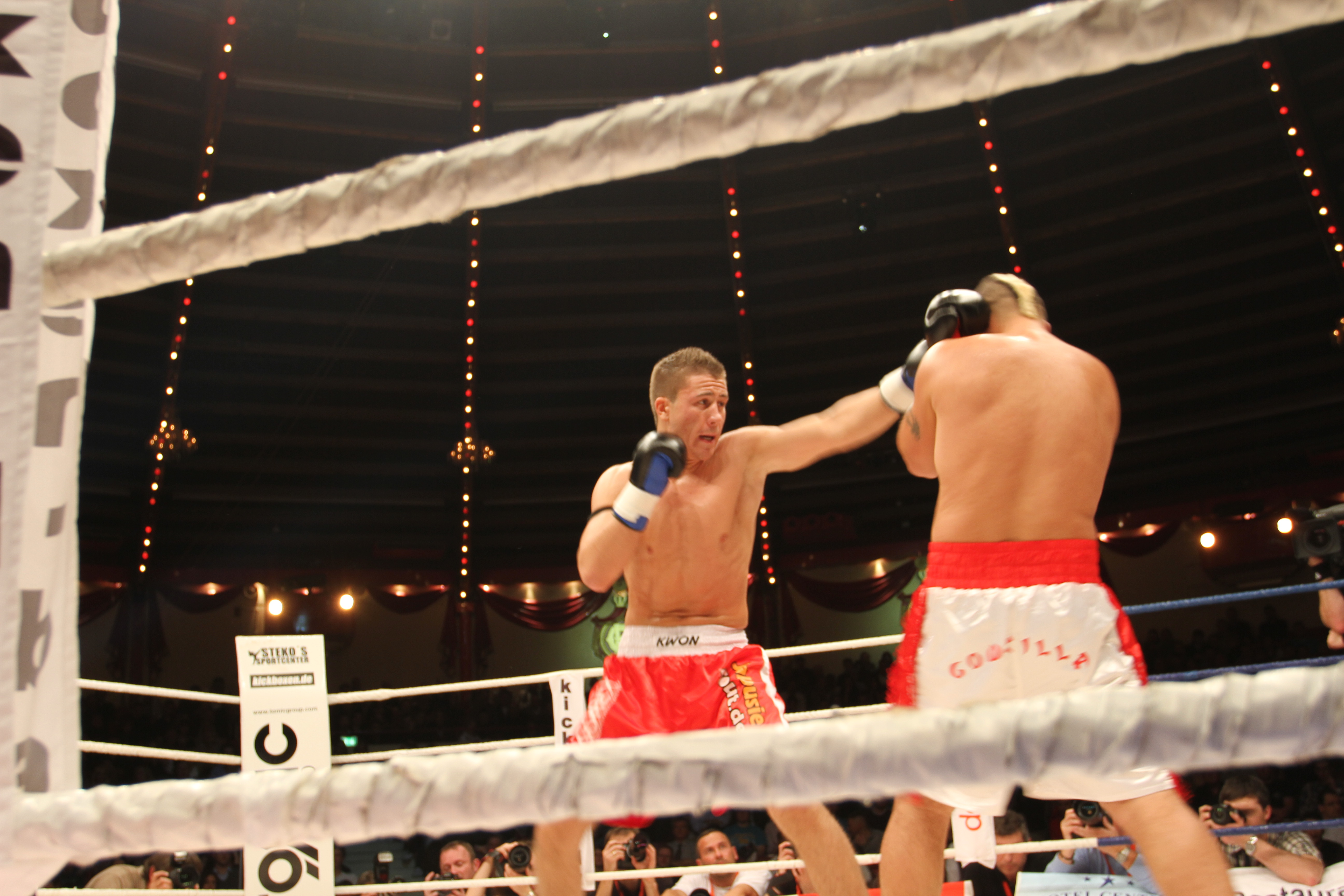 Florian Pavic (GER) vs. Yahya Gülay (TUR)